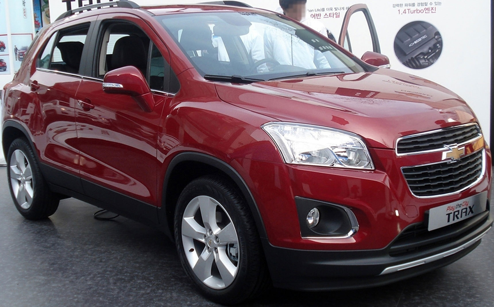 Chevrolet Trax